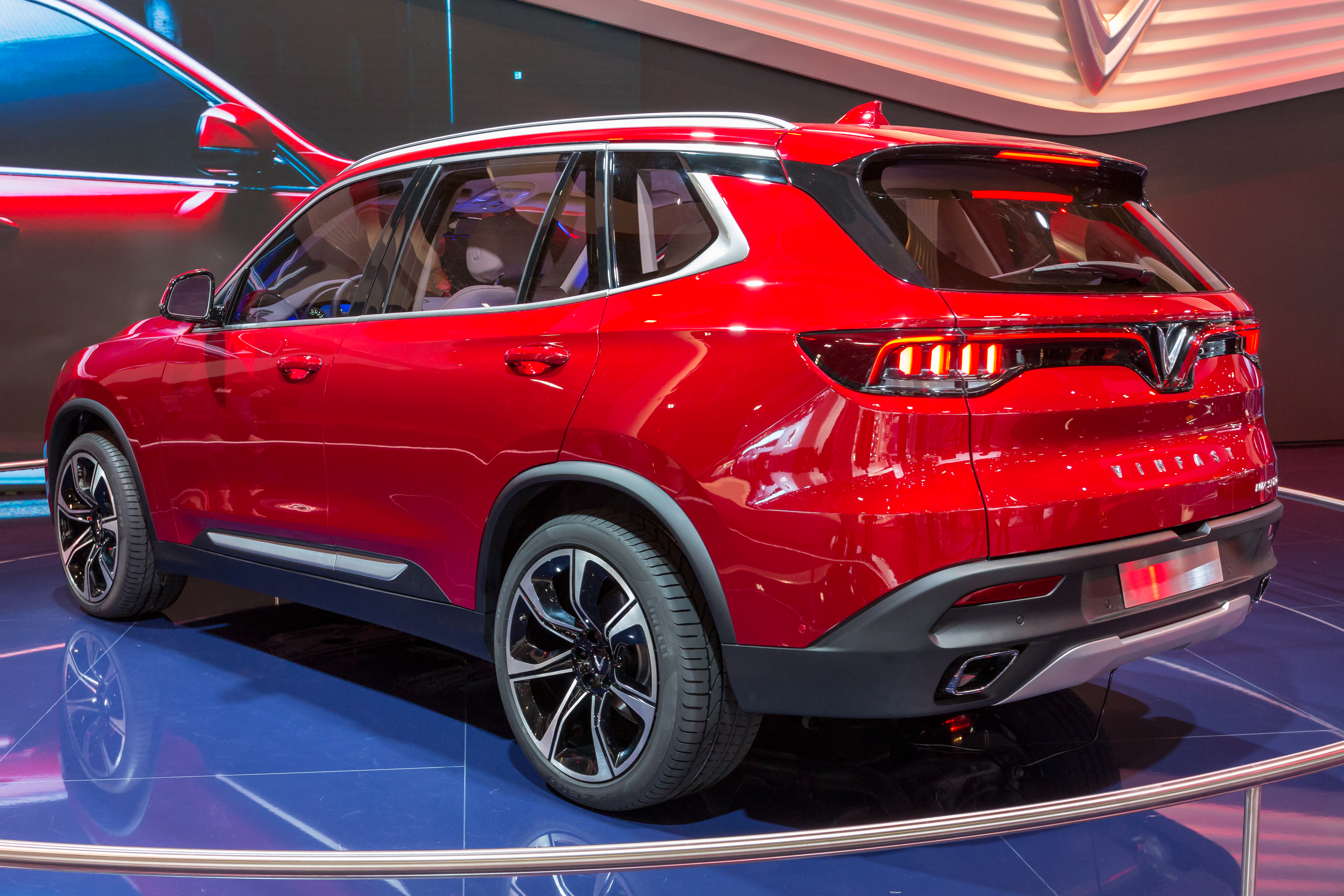 Press days at Mondial Paris Motor Show 2018